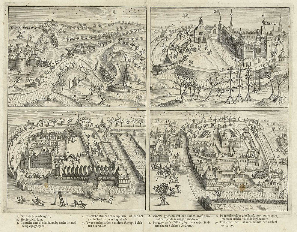 Depiction of the capture of Breda by Maurice of Nassau, 4 March 1590, in four scenes.